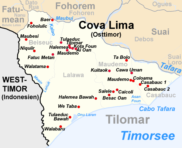 Administrative map of the Tilomar subdistrict of East Timor